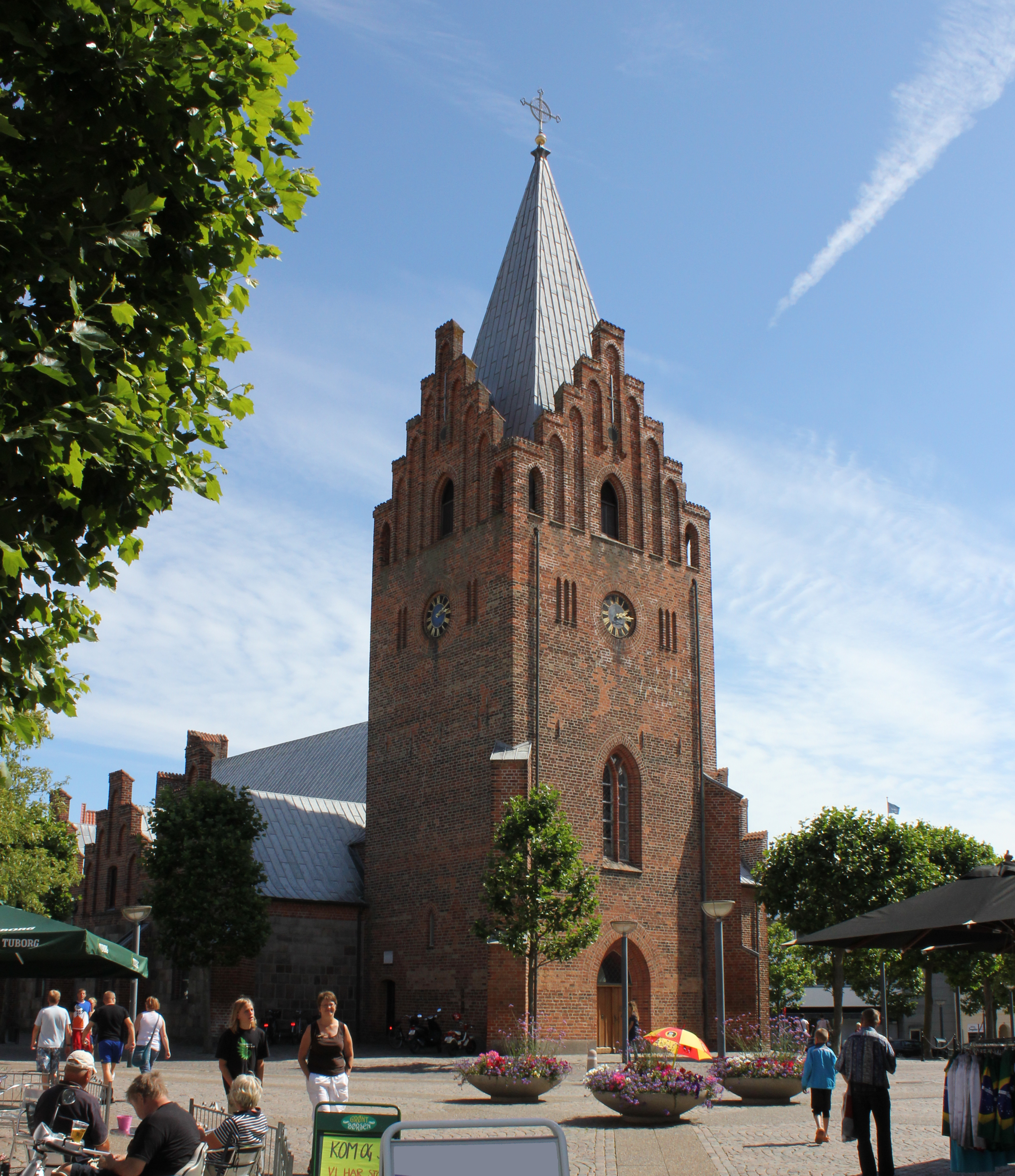 Grenaa Church or Sct. Gertruds Churcis located in Grenaa city center. The church is built around 1300, but the church's interior was in 1649 destroyed by a fire. The reconstruction of the 1650s was a domed church. It is built of brick and granite. A renovation in 1870 gave the church its distinctive spire.